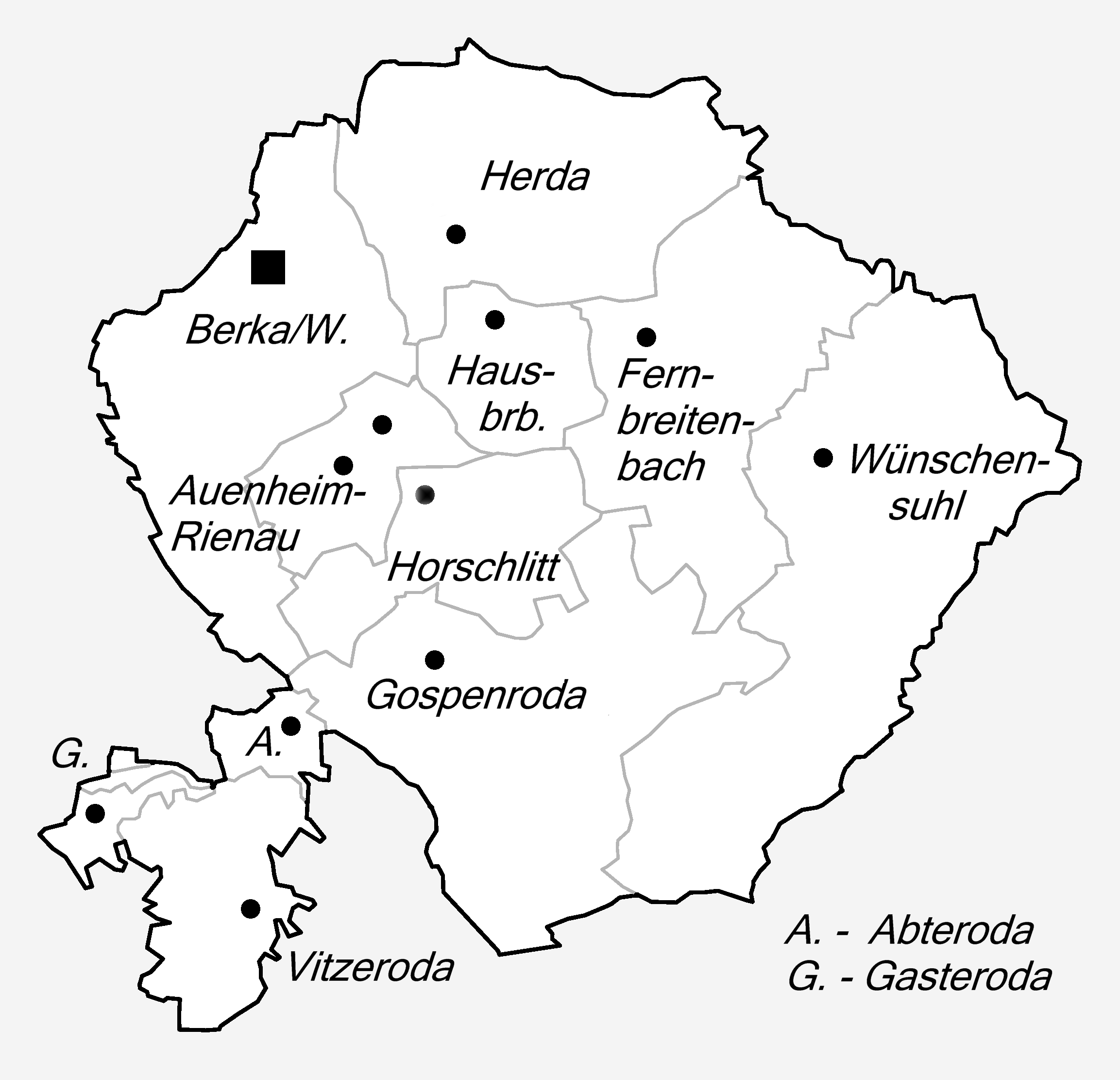 District-Maps of Berka/Werra.